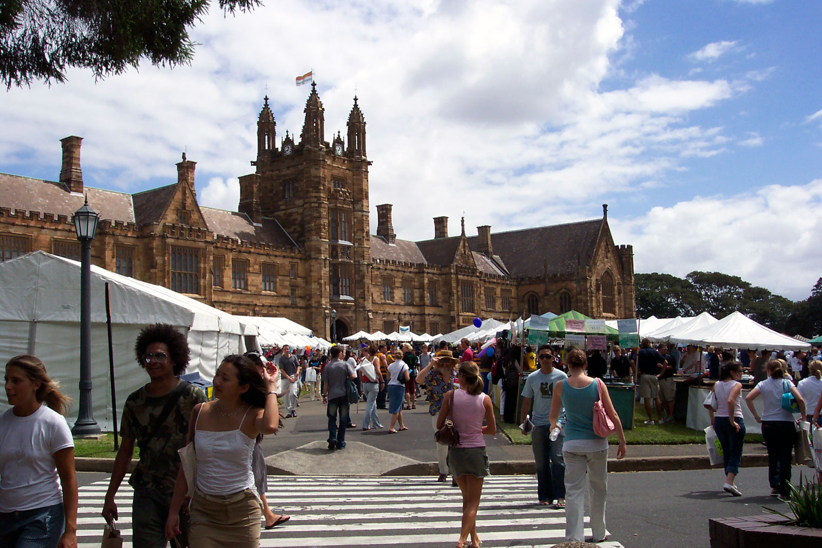 Orientation Week at the University of Sydney, organised by the University of Sydney Union.